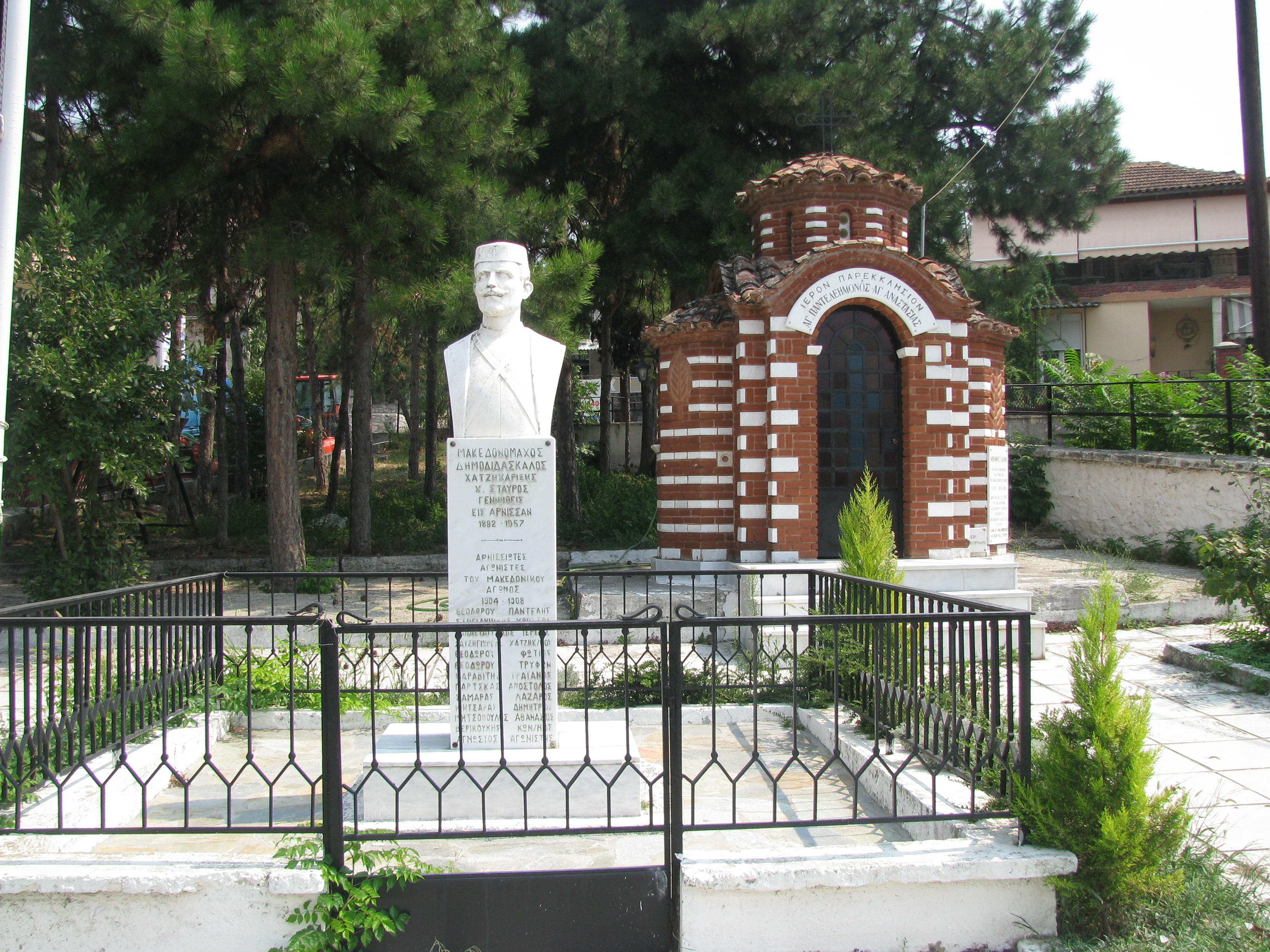 Stavri Hadzhiharov monument in Ostrovo / Arnisa, Greece